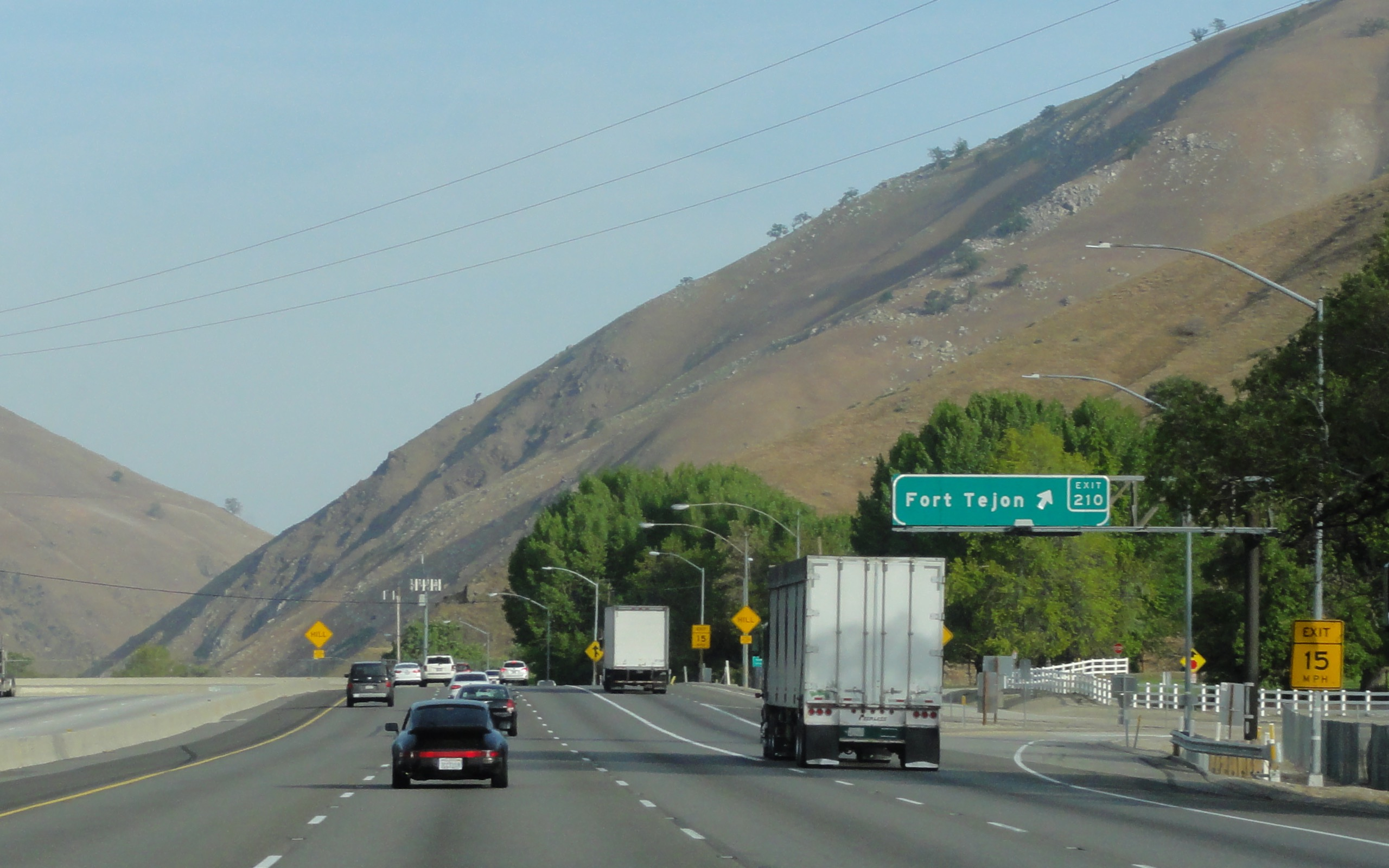 Tejon Pass near Fort Tejon, just before descending down into Central Valley.